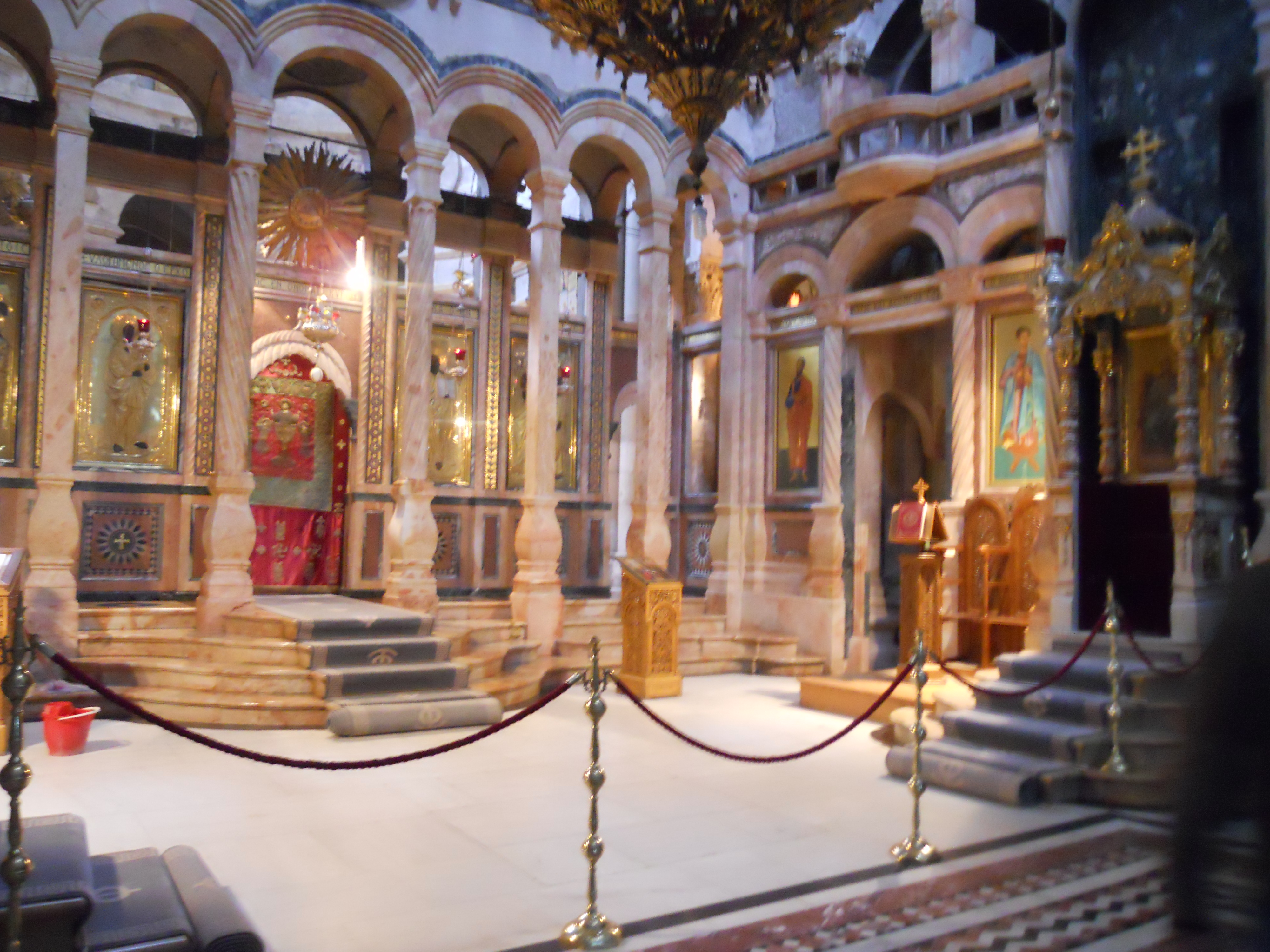 Holy Sepulchre